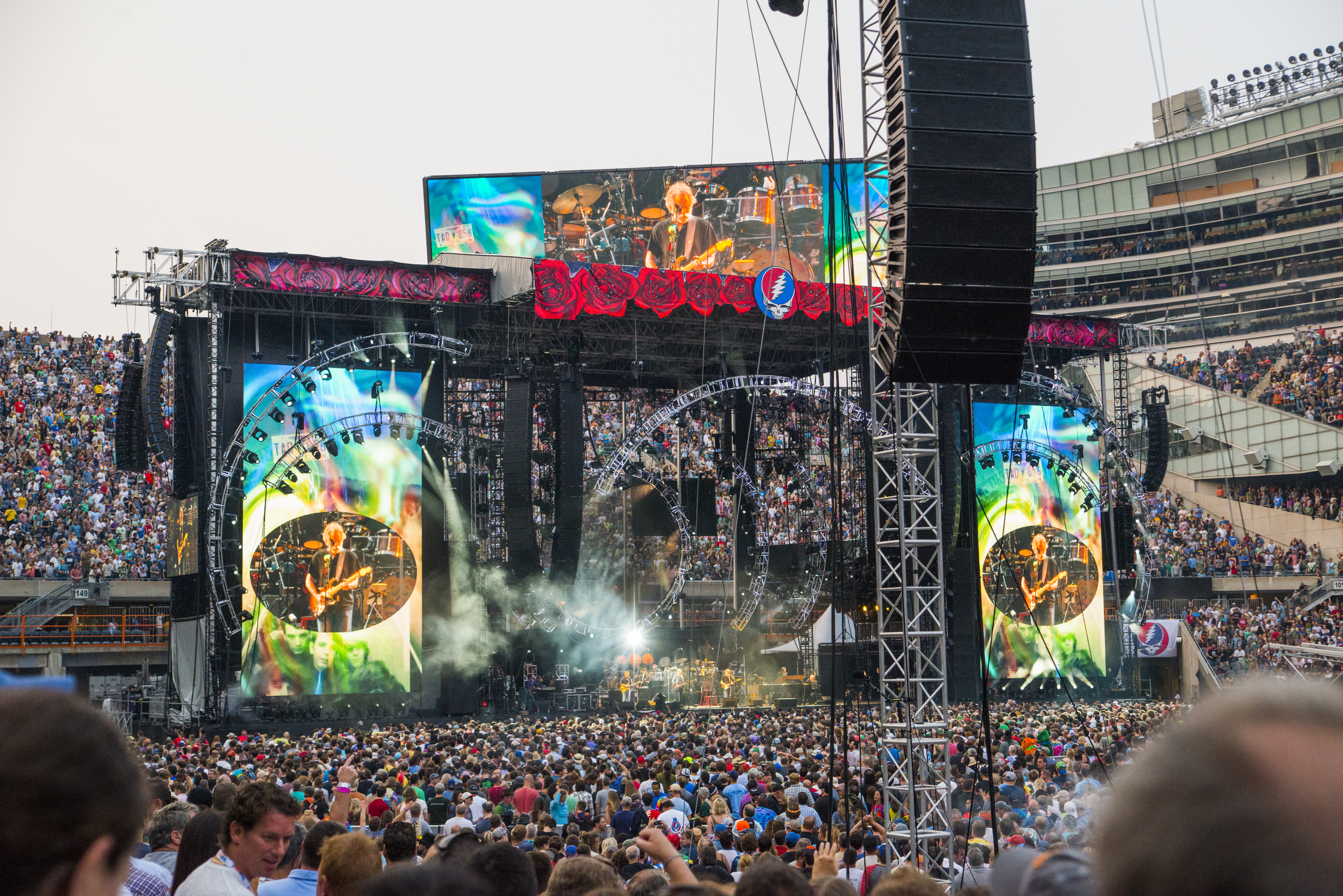 Fare Thee Well: Celebrating 50 Years of the Grateful Dead